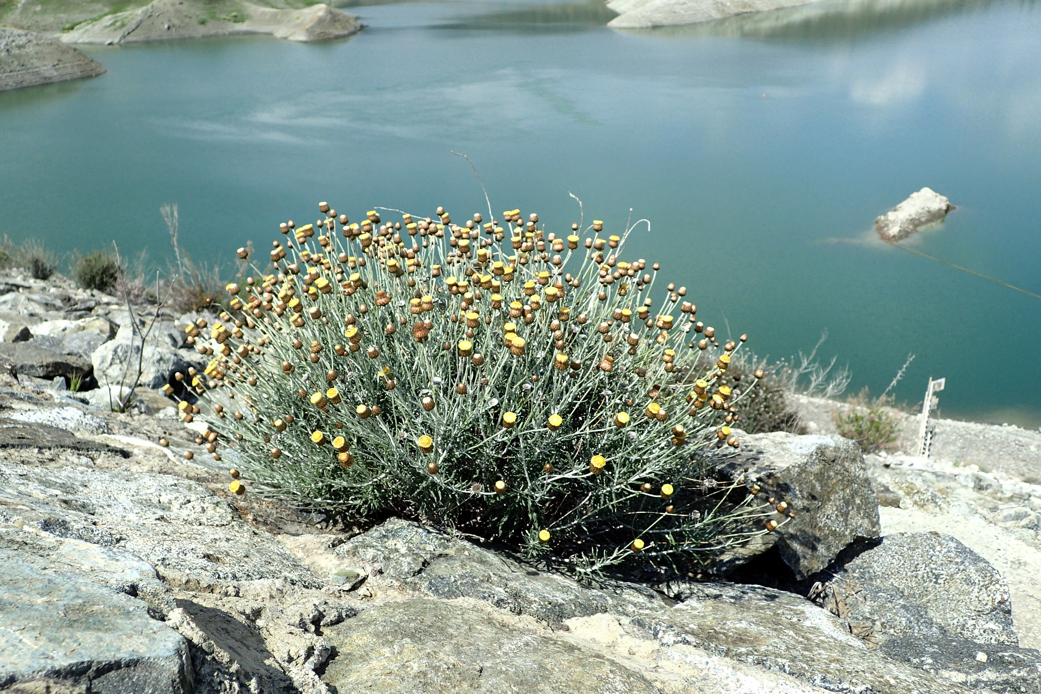 Phagnalon rupestre on Kalavasos Dam, Cyprus